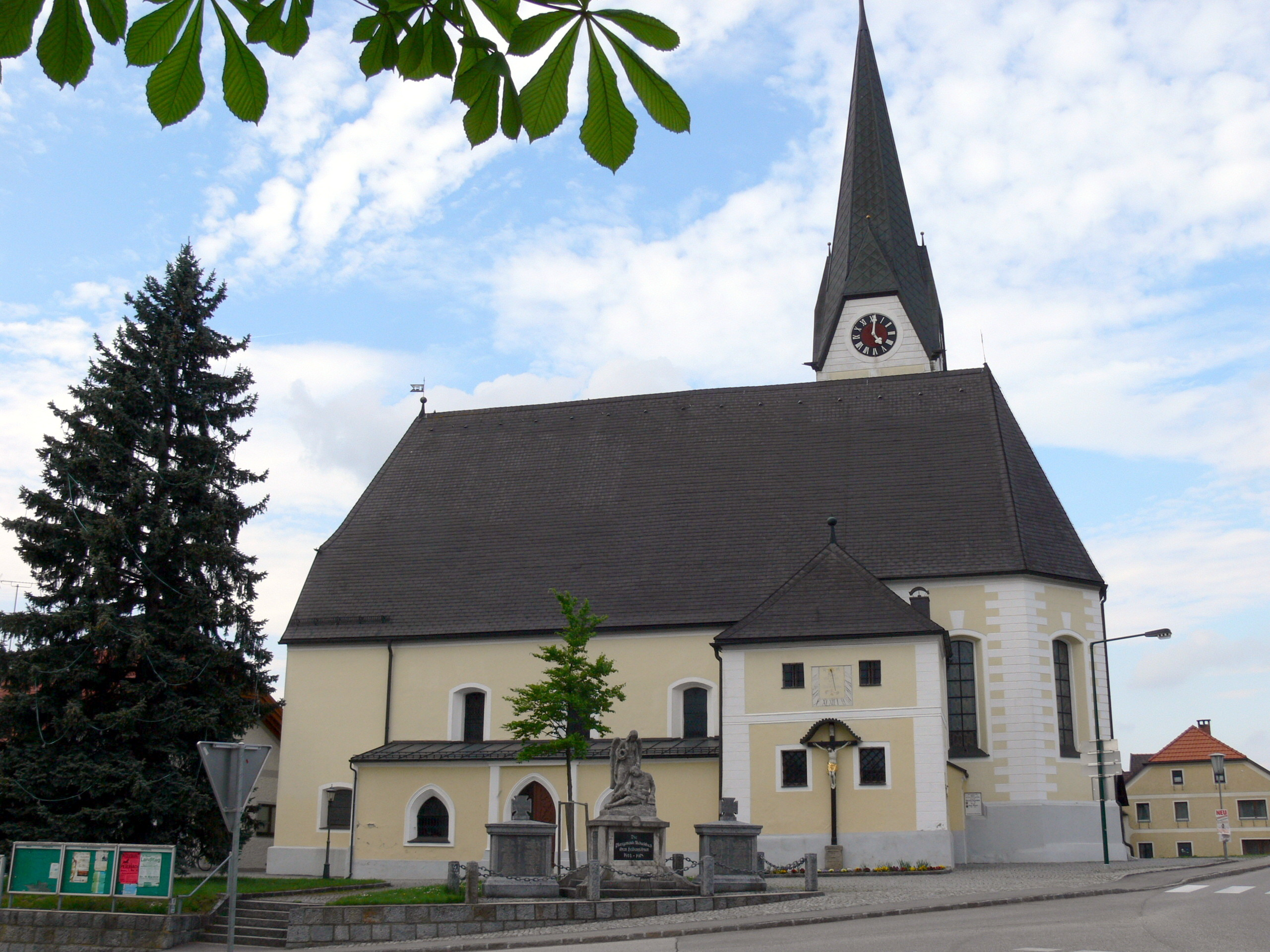 Michaelnbach ( Upper Austria ). Saint Michael parish church.